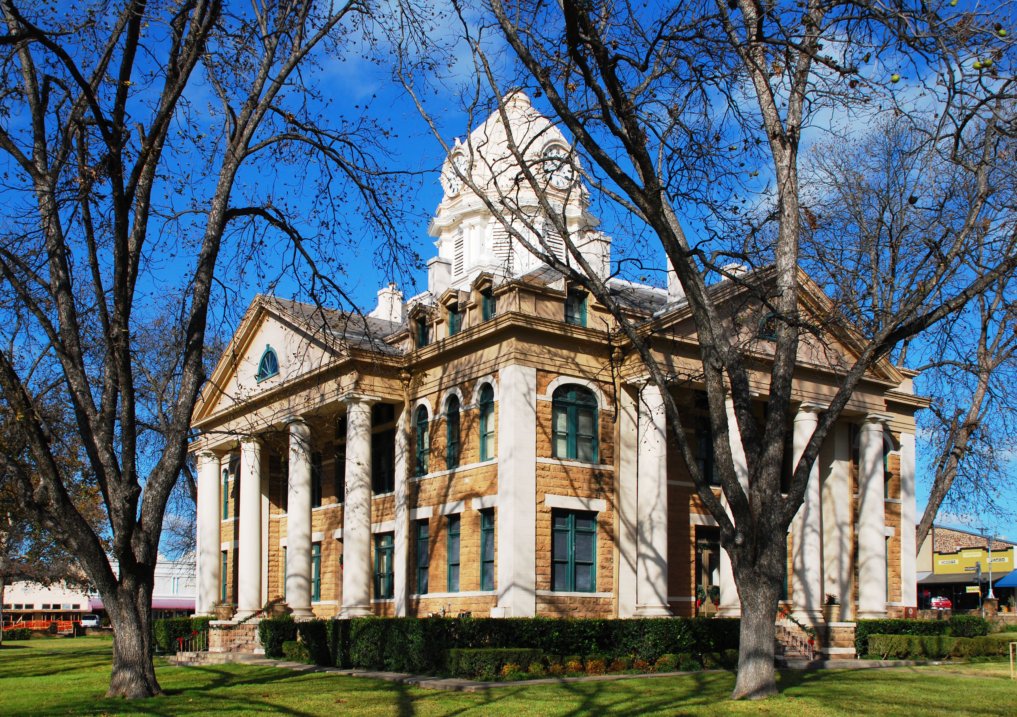 Mason County Courthouse, Mason, Texas. Recorded Texas Historic Landmark - 1988